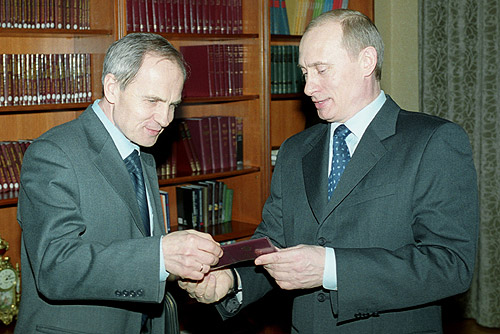 НОВО-ОГАРЕВО. С Председателем Конституционного Суда Валерием Зорькиным./Novo-Ogaryova. Vladimir Putin with Valery Zorkin, the chairman of the Russian Constitutional Court.